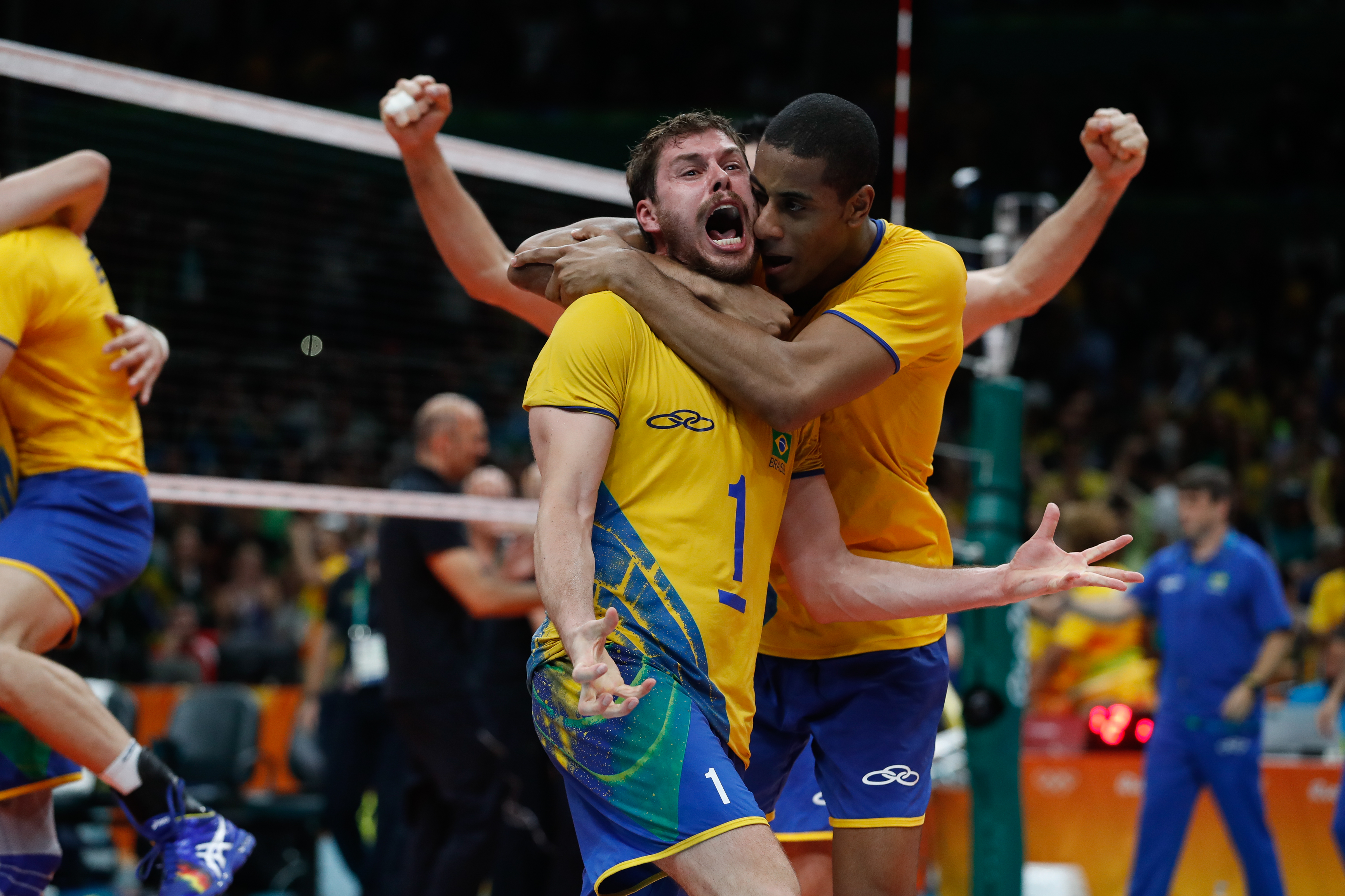 Rio de Janeiro - Seleção brasileira de vôlei disputa contra a Itália a final dos Jogos Olímpicos Rio 2016, no Maracanãzinho (Fernando Frazão/Agência Brasil)